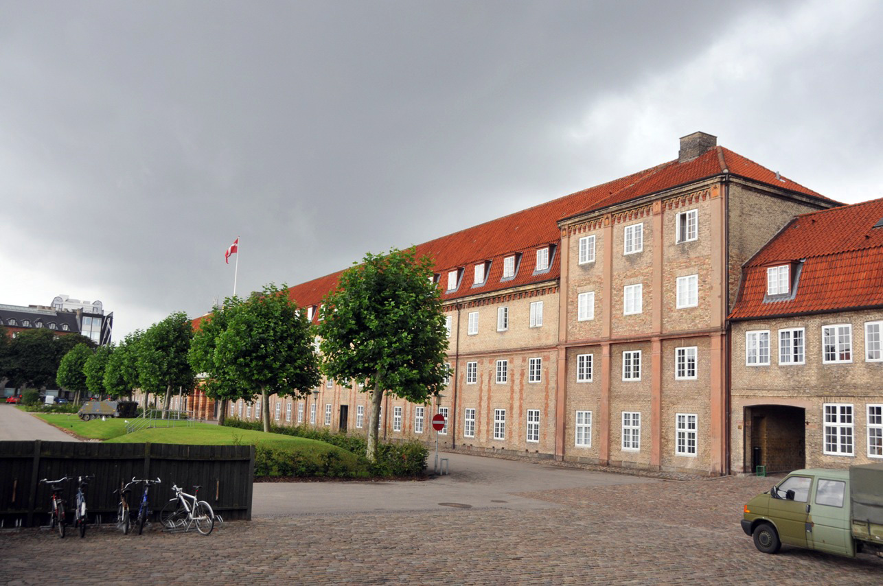 The barracks of the Royal Danish Life Guard at Tosenborg Castle in Copenhagen, Denmark